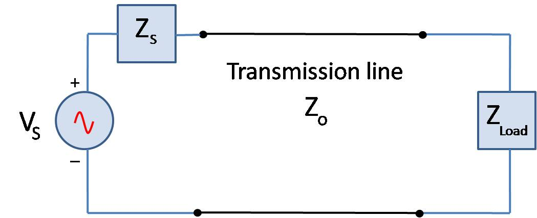 Diagram depicting a transmission line of characteristic impedance Z0 terminated in a load impedance of ZL. Matching will be perfect and there will be no reflection if Z0 = ZL.